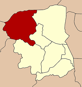 Map of Nakhon Pathom, highlighting Amphoe Kamphaeng Saen (Geocode 7302).